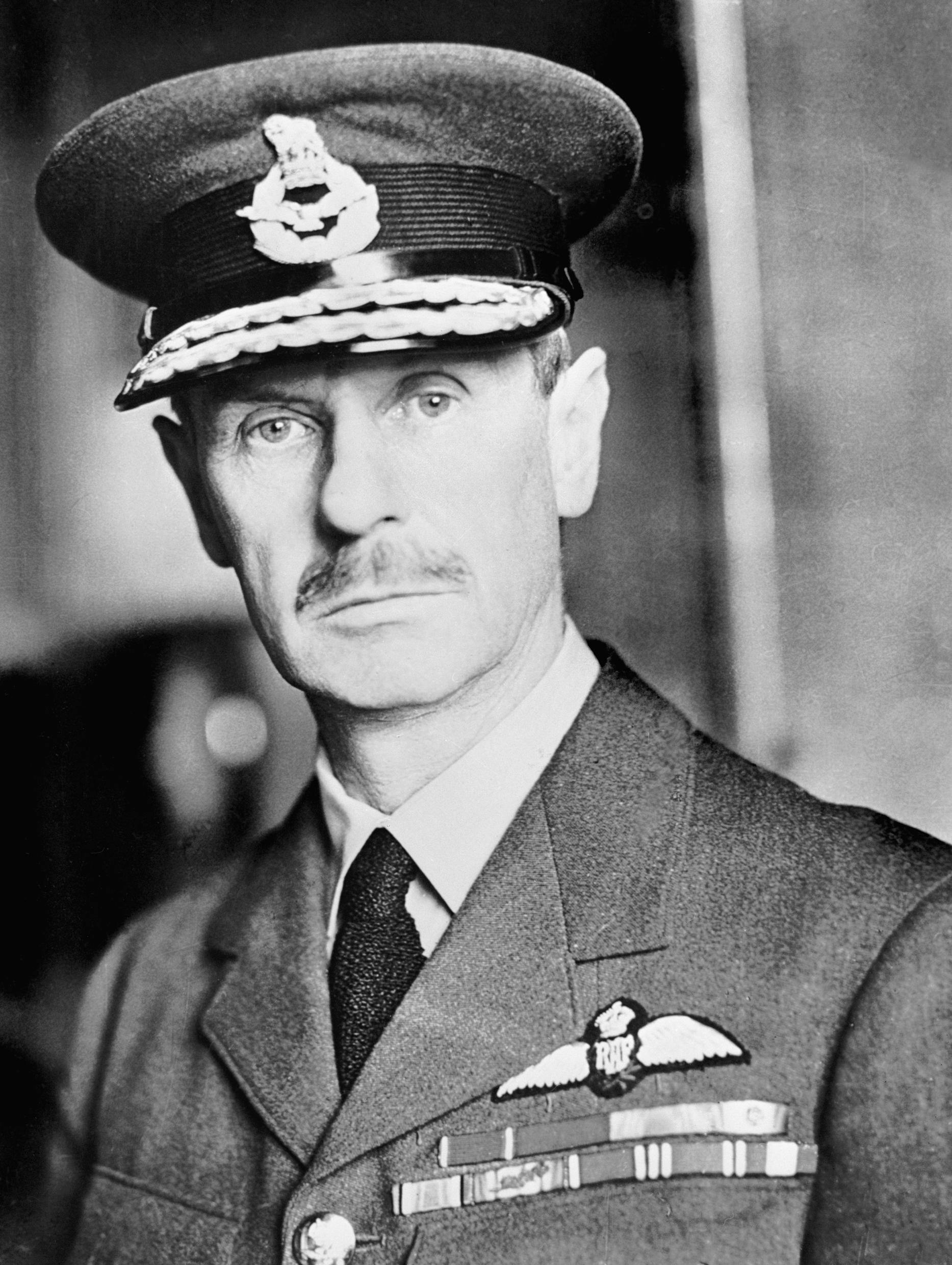 Photograph of Air Marshal Hugh Dowding: also available at This is photograph D 1417 from the collections of the Imperial War Museums (collection no. 4700-27)